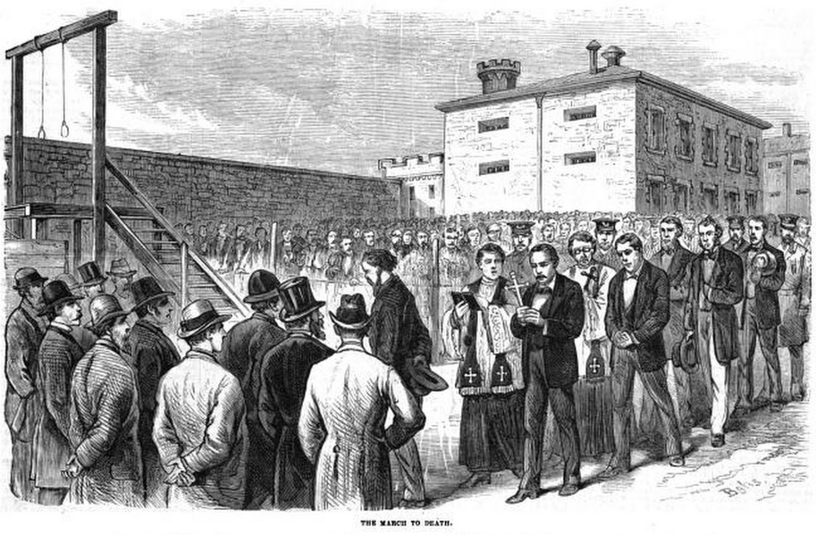 The last march of eleven Molly Maguires before execution at Pottsville, Pennsylvania on June 21, 1877.